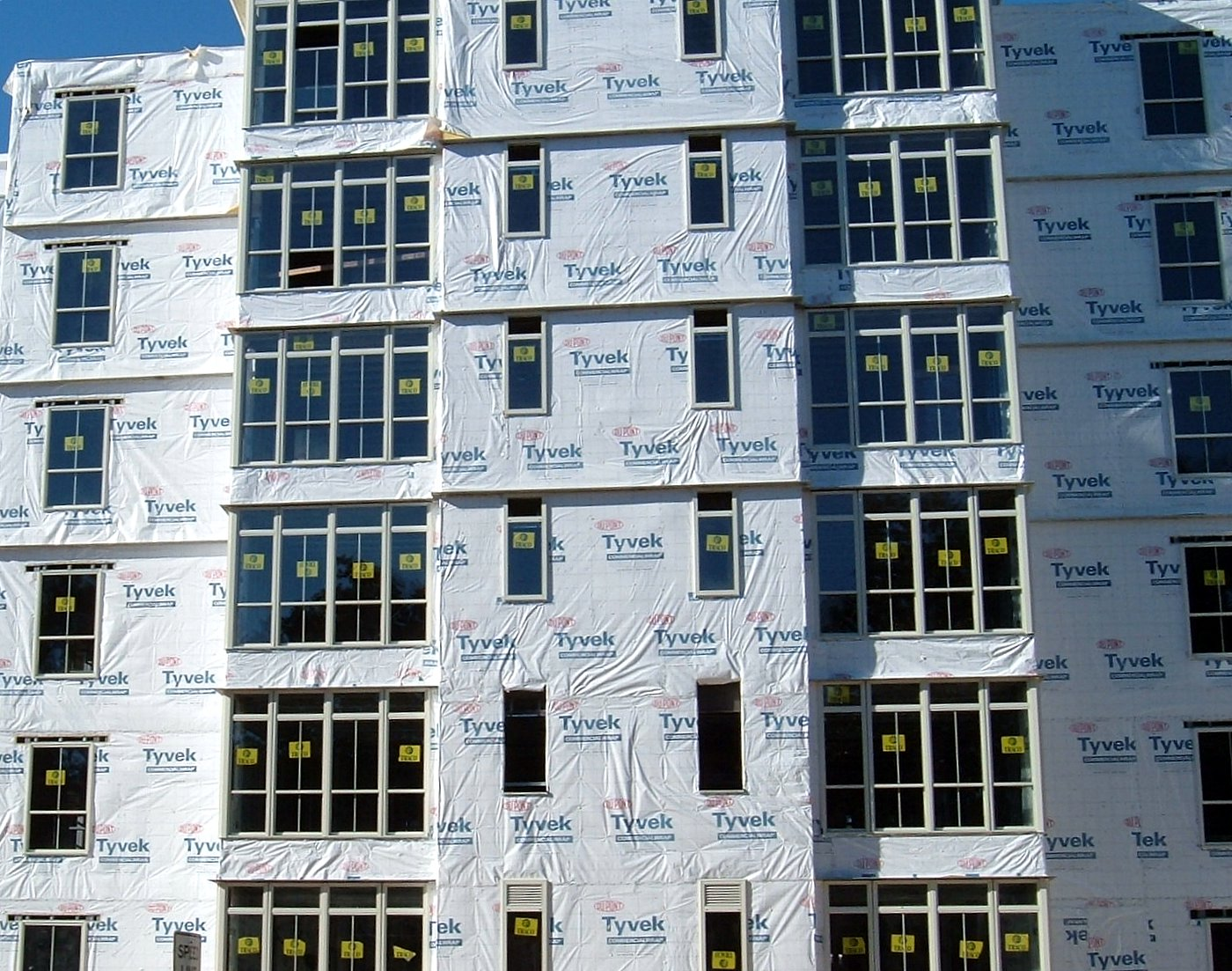 Tyvek house wrap in Atlanta, GA, US on Georgia Tech campus - "10th & Home" Apartments.